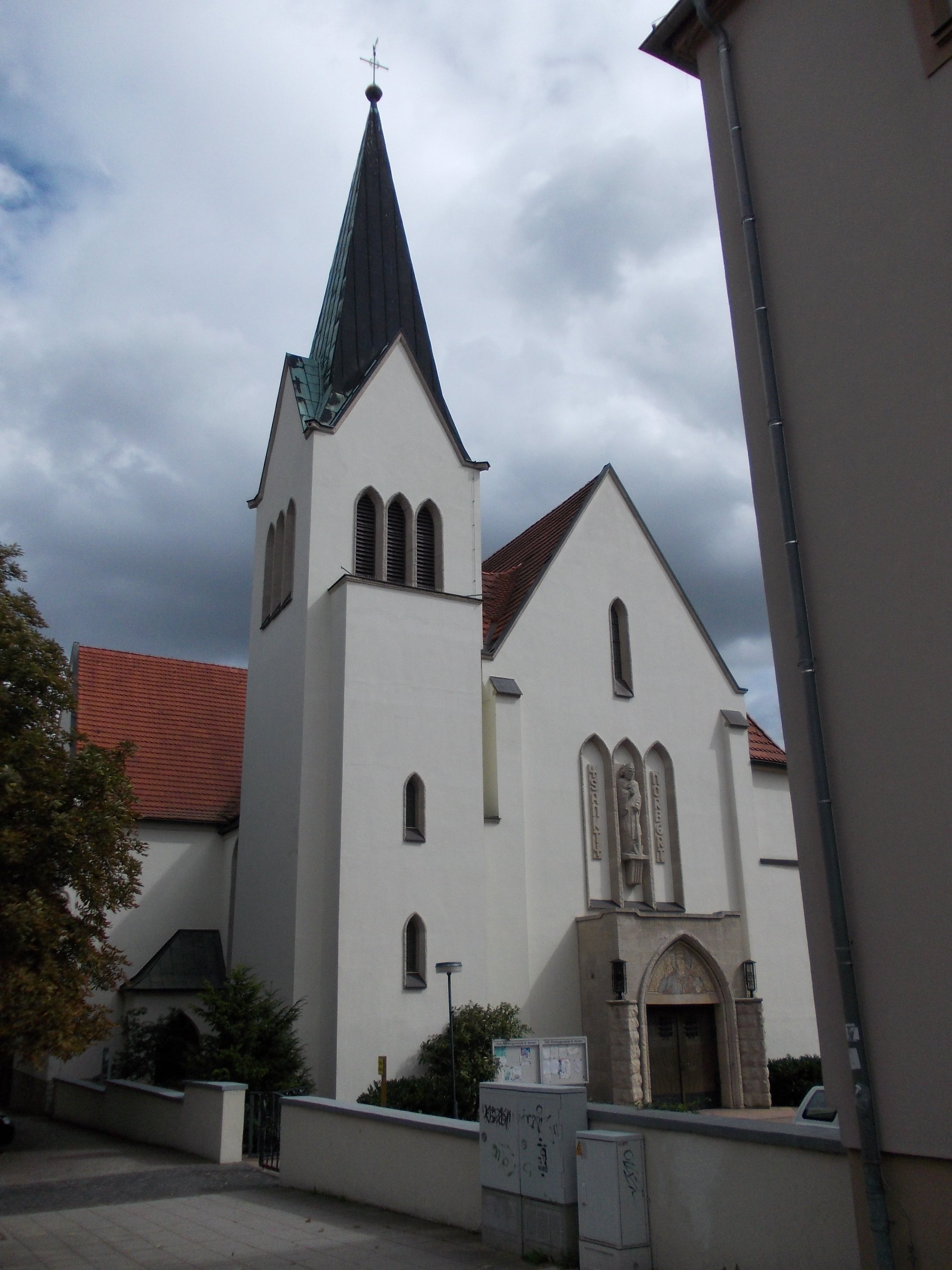 Roman Catholic St. Norbert Church in Merseburg (district of Saalekreis, Saxony-Anhalt)